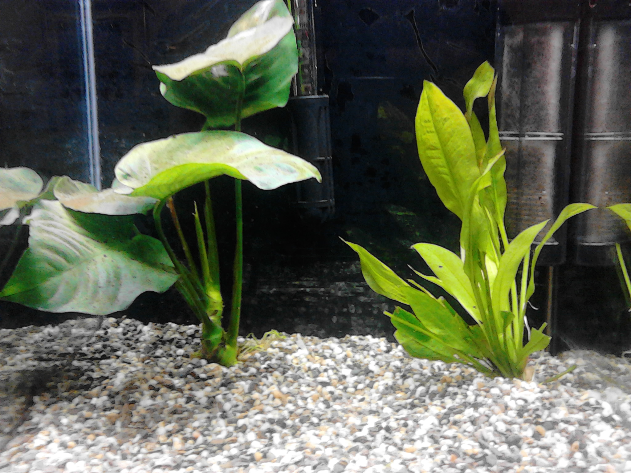 Anubias barteri (left) and Echinodorus bleheri in a 60 litres aquarium